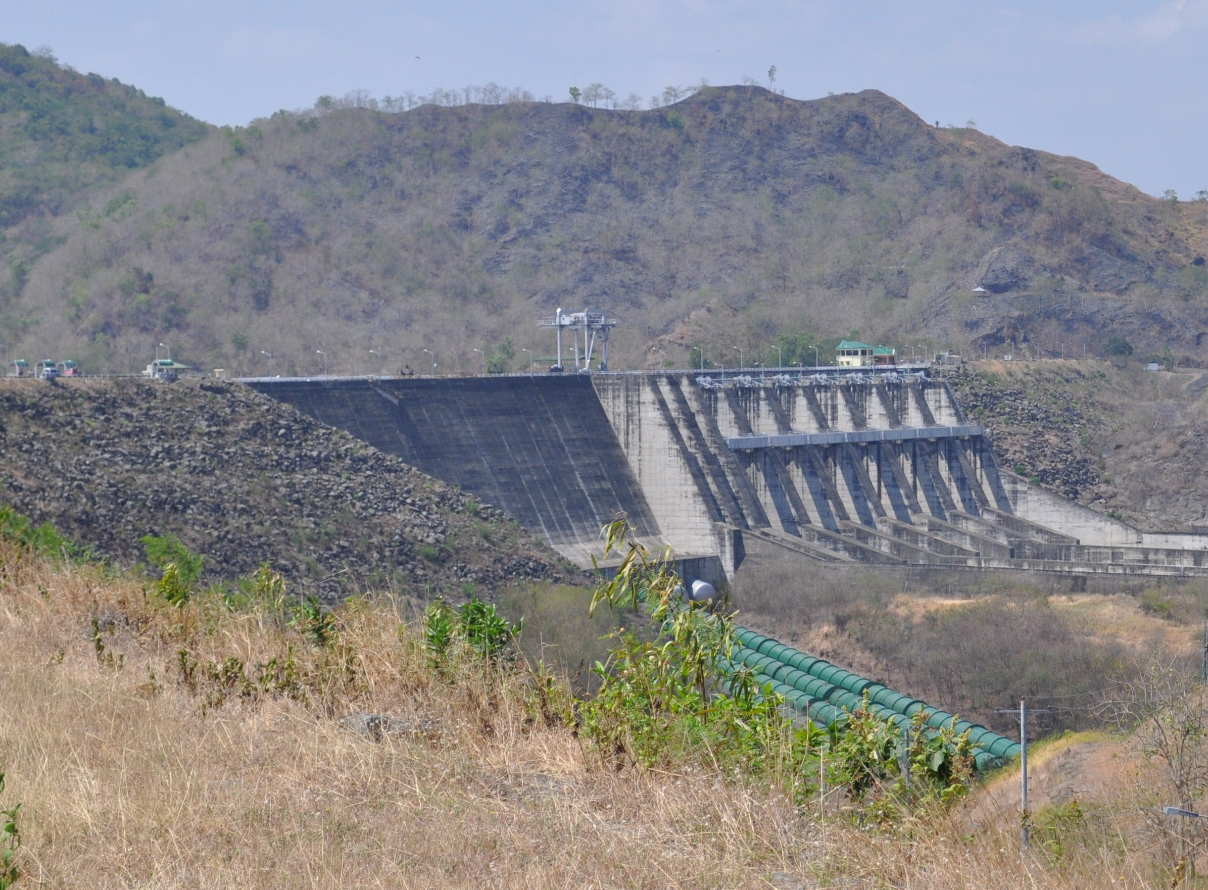 The Magat dam in the Island of Luzon in the Philippines.